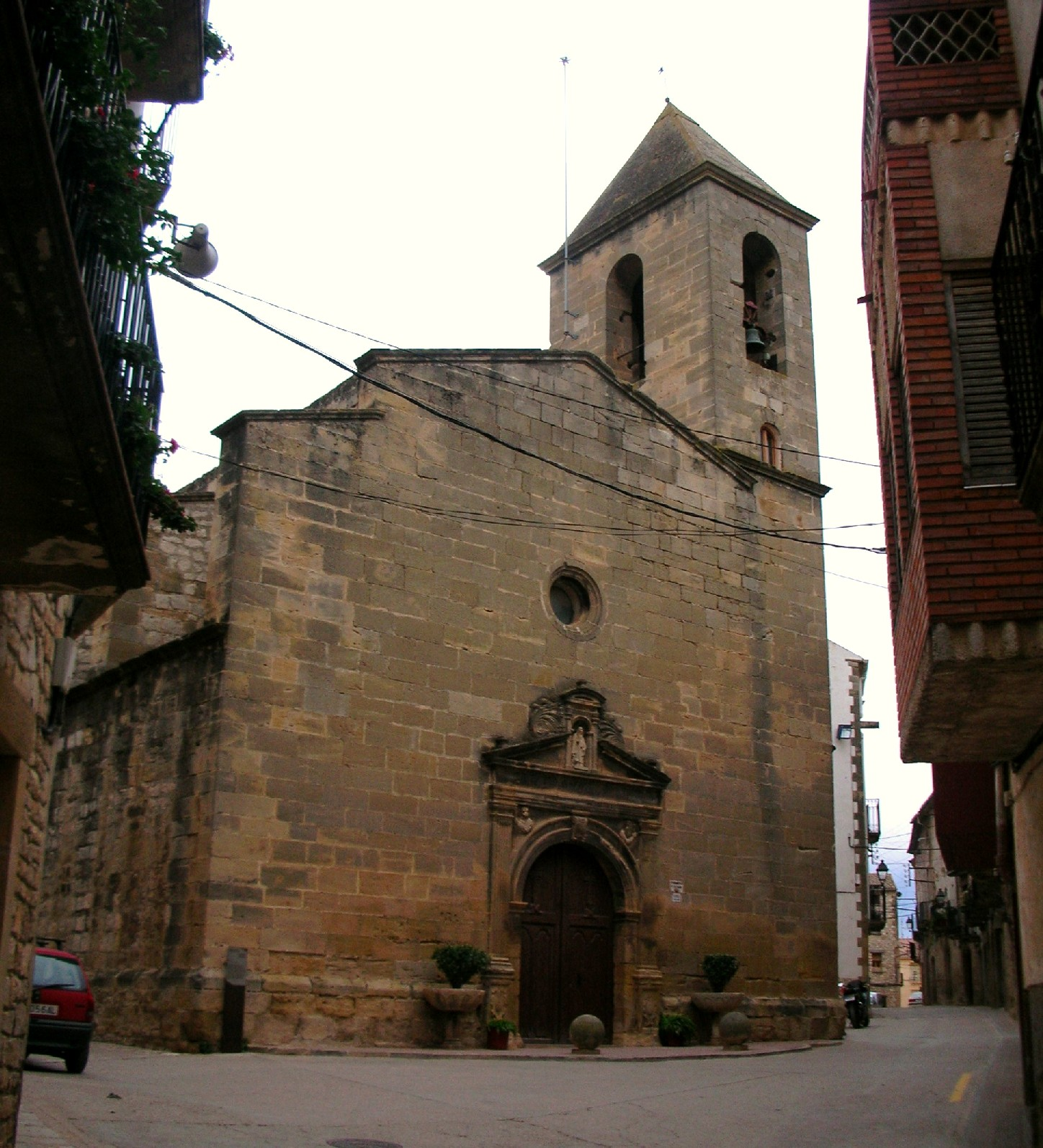 La Pobla de Massaluca, main church